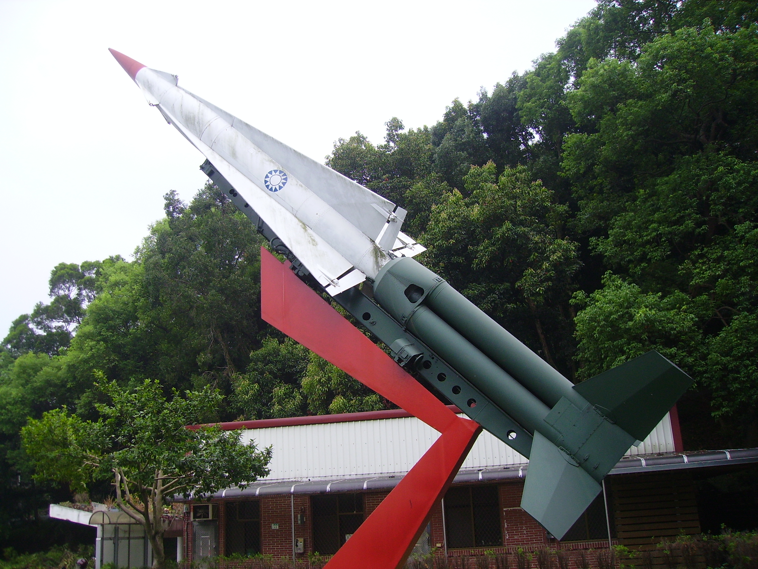 Nike missile in Taiwan.